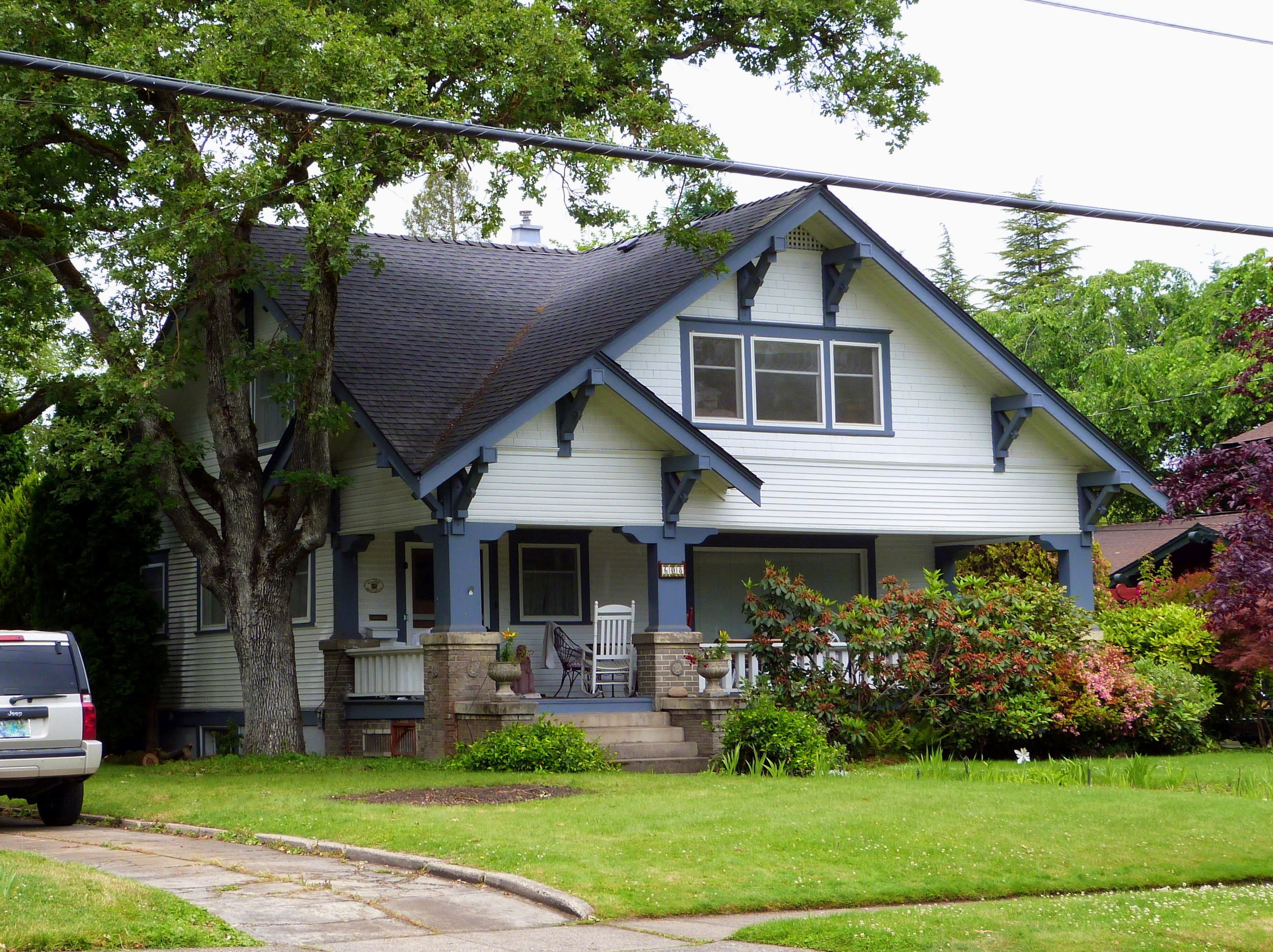 The historic Beeson House (built 1926), located at 608 South Oakdale Avenue in Medford, Oregon, United States, is listed as a contributing resource in the South Oakdale Historic District. The historic district is listed on the US National Register of Historic Places.